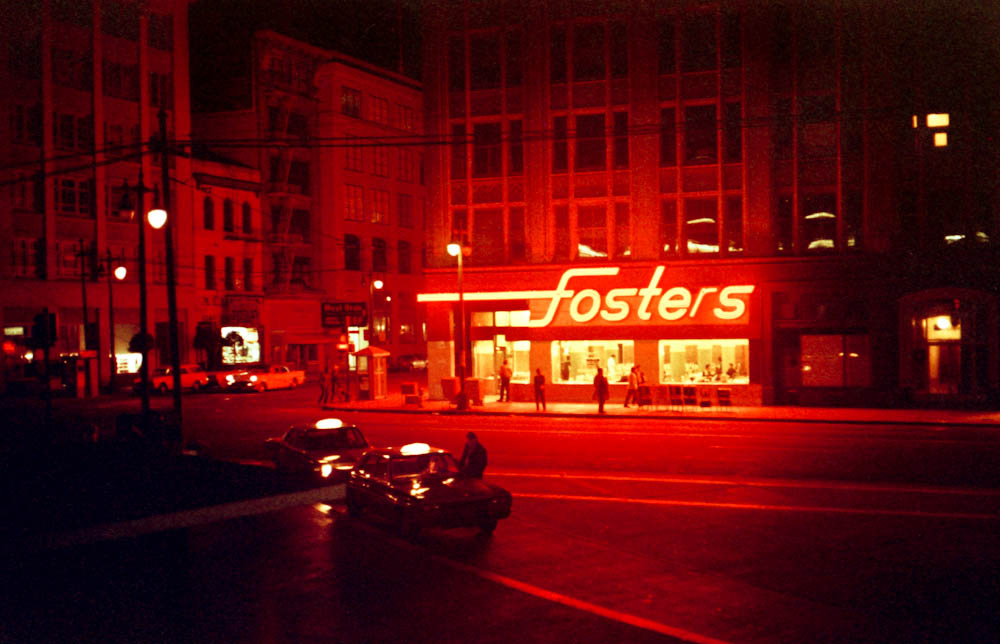 Foster's was across Mission Street from the Transbay Transit Terminal. Kodak Ektacolor, scanned with Epson V500.